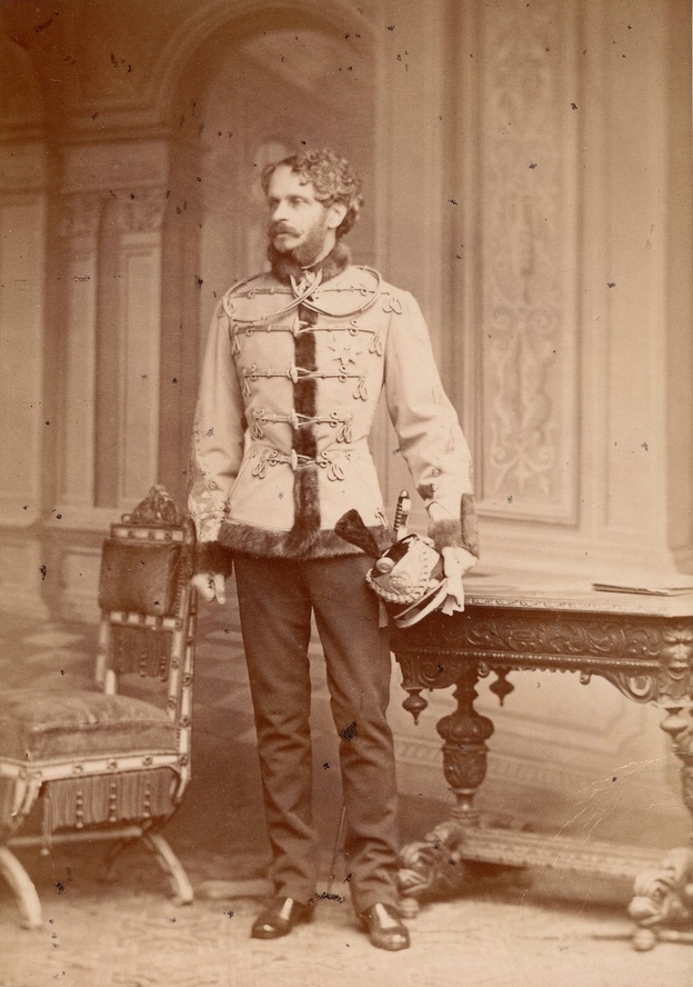 The hungarian leader count Gyula Andrássy (1823-1890)